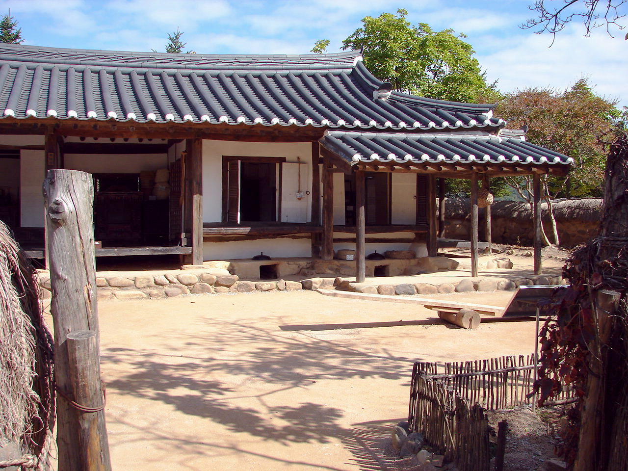 Hwangseok-ri House - This wooden construction was originally built in Hwangseog-ri in late years of the Joseon Dynasty and was moved in the complex in 1985. The house has a kitchen, two rooms and a Sarangbang (a small separated house for men). There was a unique technique used to connect the angled pillars to the floor leading the kitchen of the Sarangbang. Cheongpung Cultural Properties Complex - located by the Chungjuho Lake. This complex is a reconstructtion of Cheongpung, a village that became submerged after the construction of Chungju Dam. It took three years to relocate the buildings and structures in the current site at a cost of of over 1.6 trillion won. Designated North Chungcheong Province Tangible Cultural Property #84.